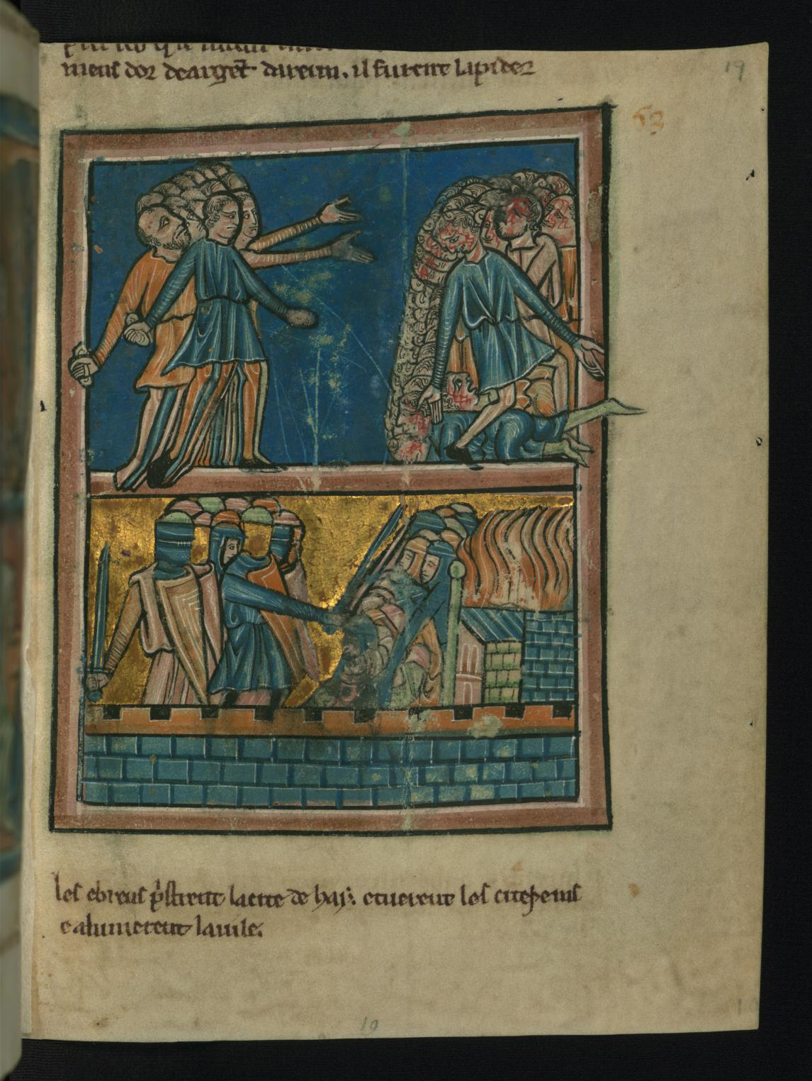 These images from Walters manuscript W.106 depict scenes from the story of Joshua. Top: A man named Achan had stolen some things,which had been promised to God, from Jericho, and because of this the people of Israel fled before the men of Ai. Achan confessed his crime to Joshua; he had stolen silver and gold. The Israelites took Achan and his family, and stoned them. Bottom: Under the command of Joshua, the Israelites captured the city of Ai.